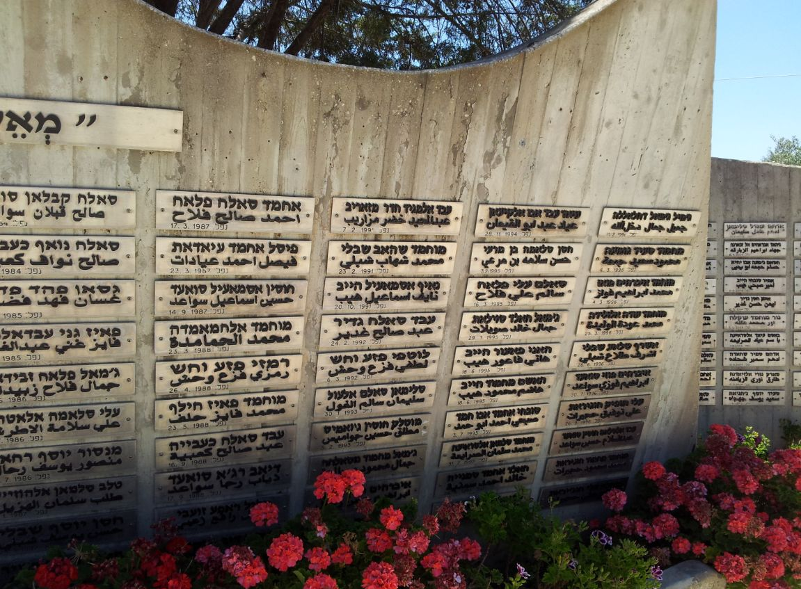 קיר הנופלים בשנות ה 80 וה 90 באתר הנצחה ללוחם הבדואי